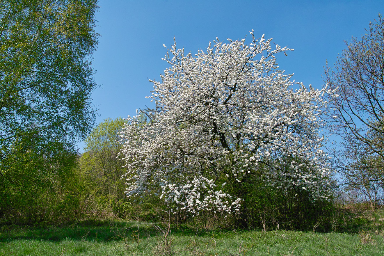 abandoned orchard in former Maskovice village (near Povrly, Usti nad Labem), Czech Republic